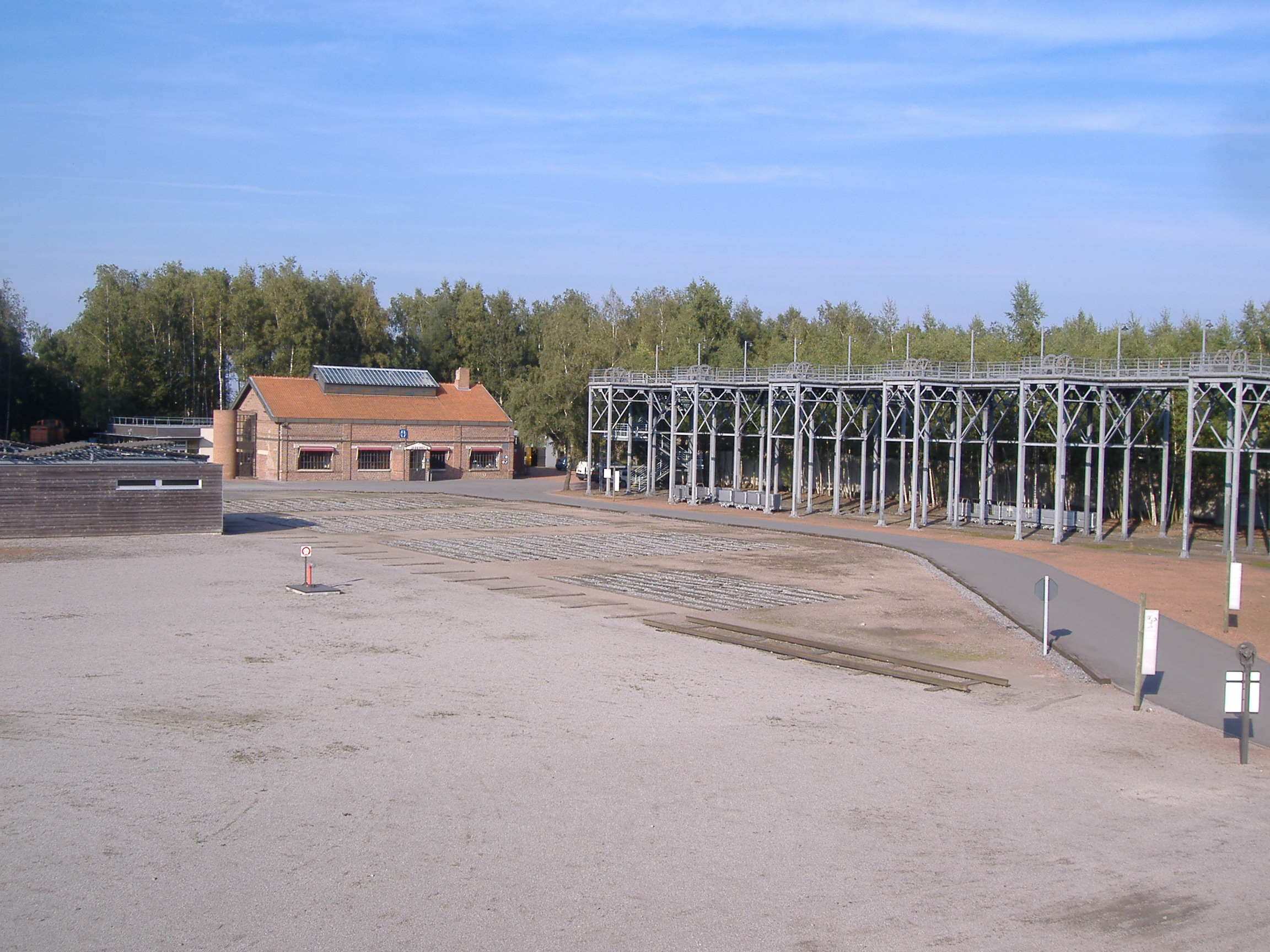 Centre historique minier de Lewarde, North of France . Former coal mine.